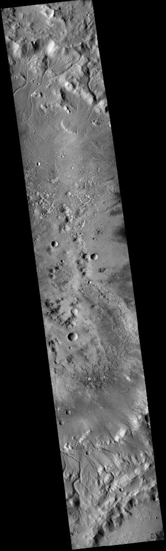 Bakhuysen Crater, as seen by ctx